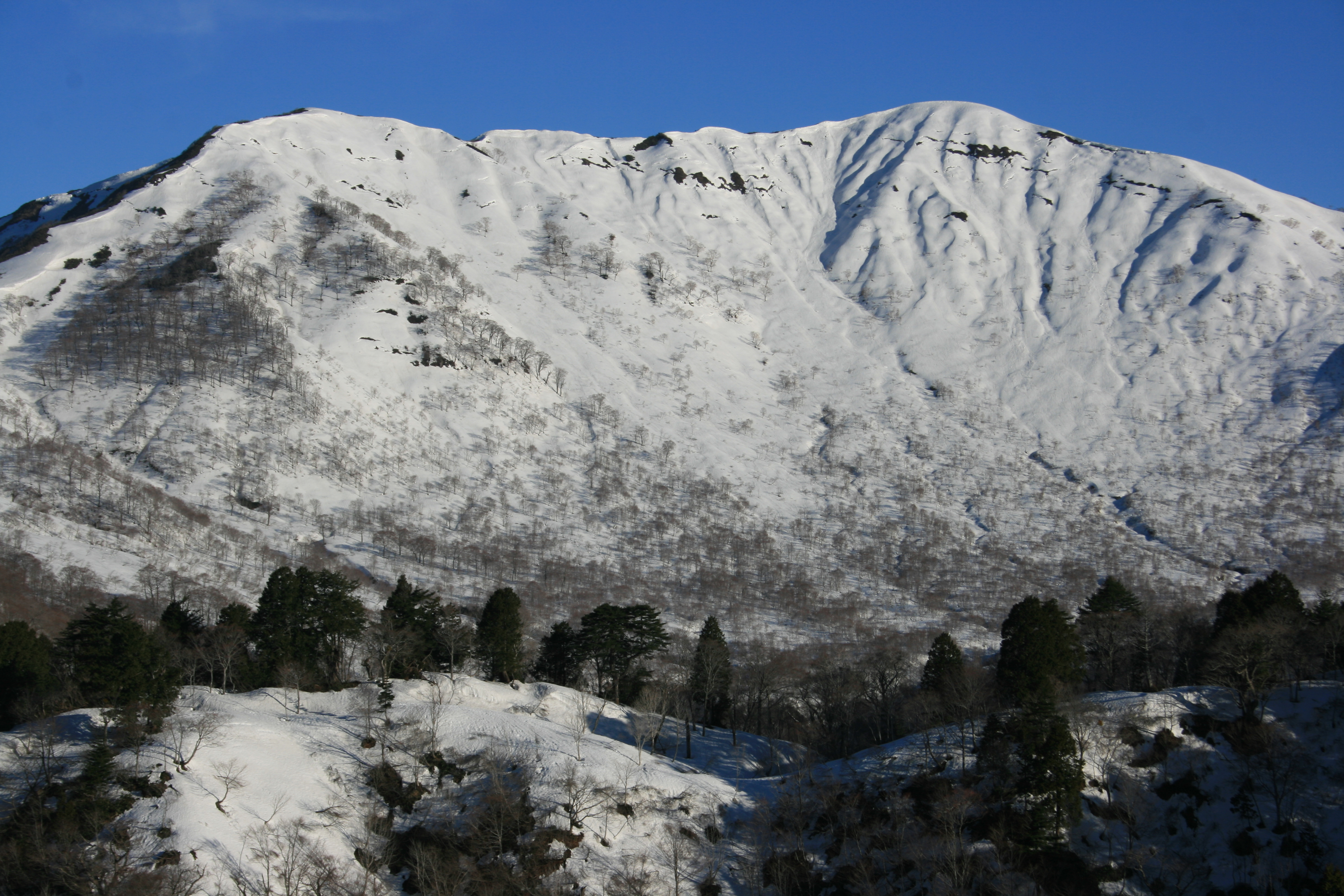 Mount_Nobuse_from_Mount_Sugi